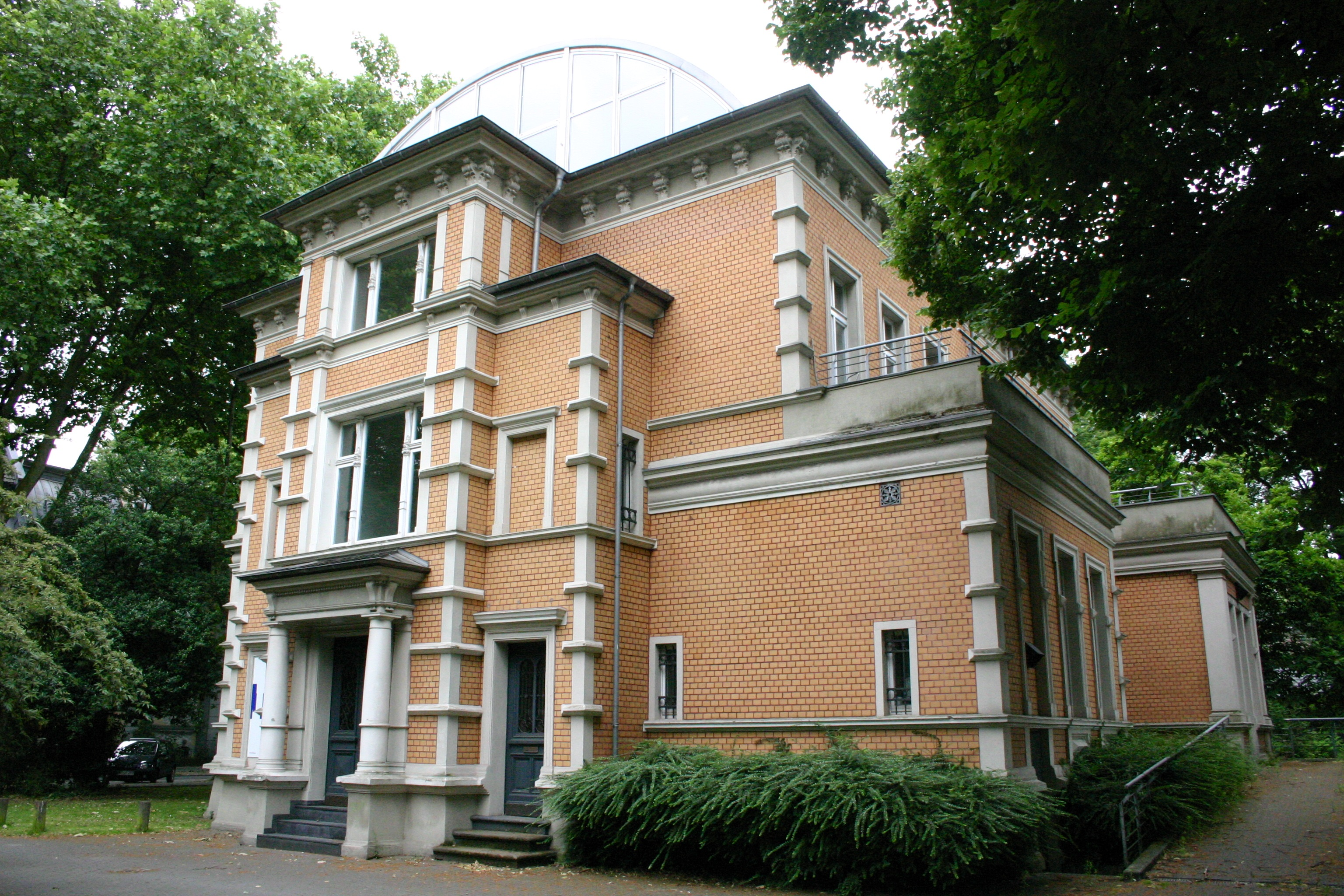 So called Meuthen-Villa or Villa Concordia (built in 1897) in Oberhausen (Germany) - nowadays office of the International Short Film Festival.